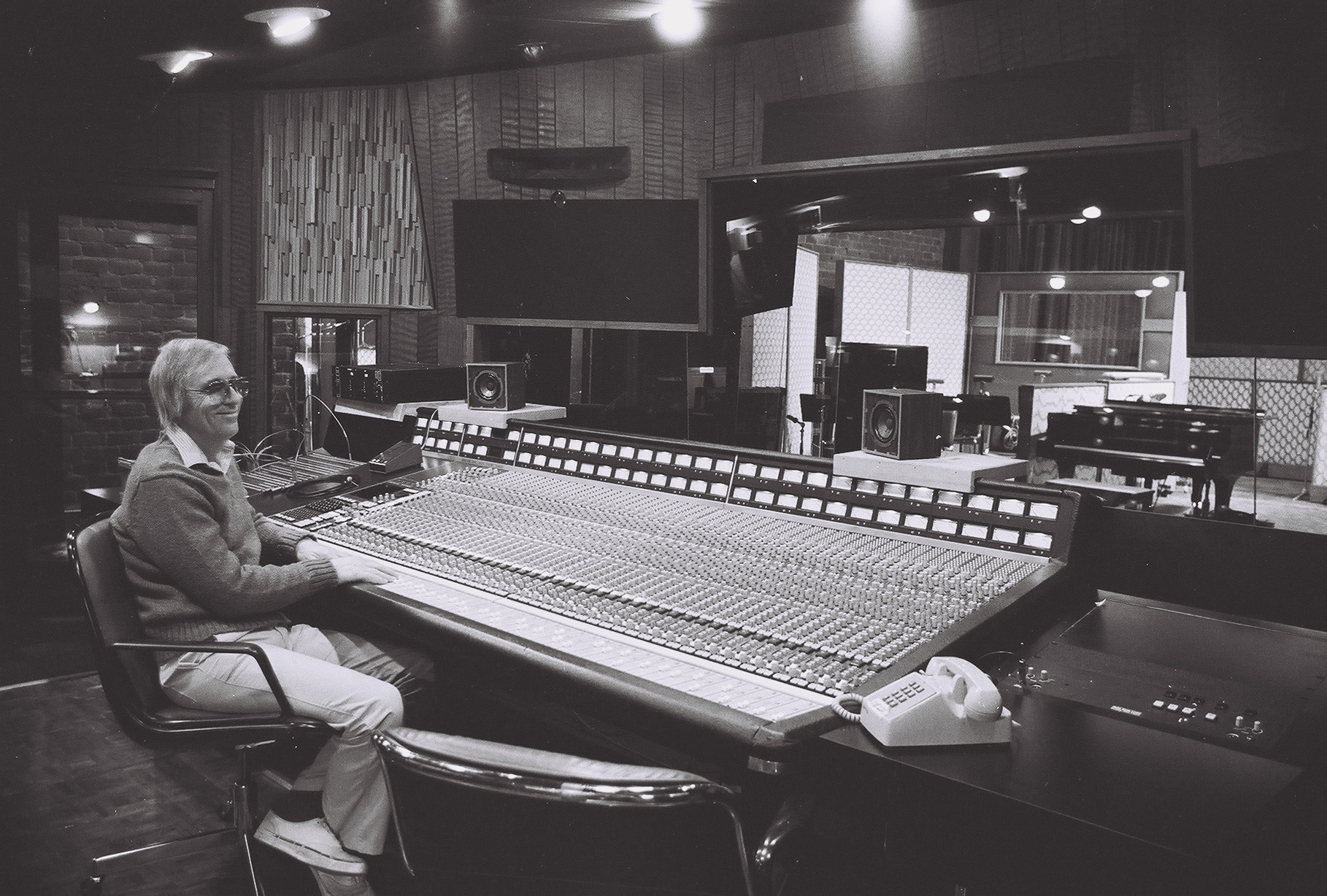 Producer and engineer Dan Wallin at Studio M, a soundstage at Paramount Pictures which was leased by the Record Plant to score, record and mix film music.